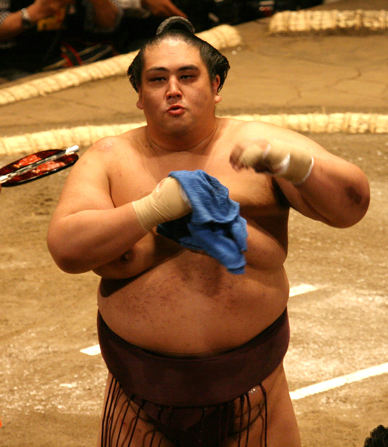 Miyabiyama (Musashigawa stable) during the May 2008 tournament.